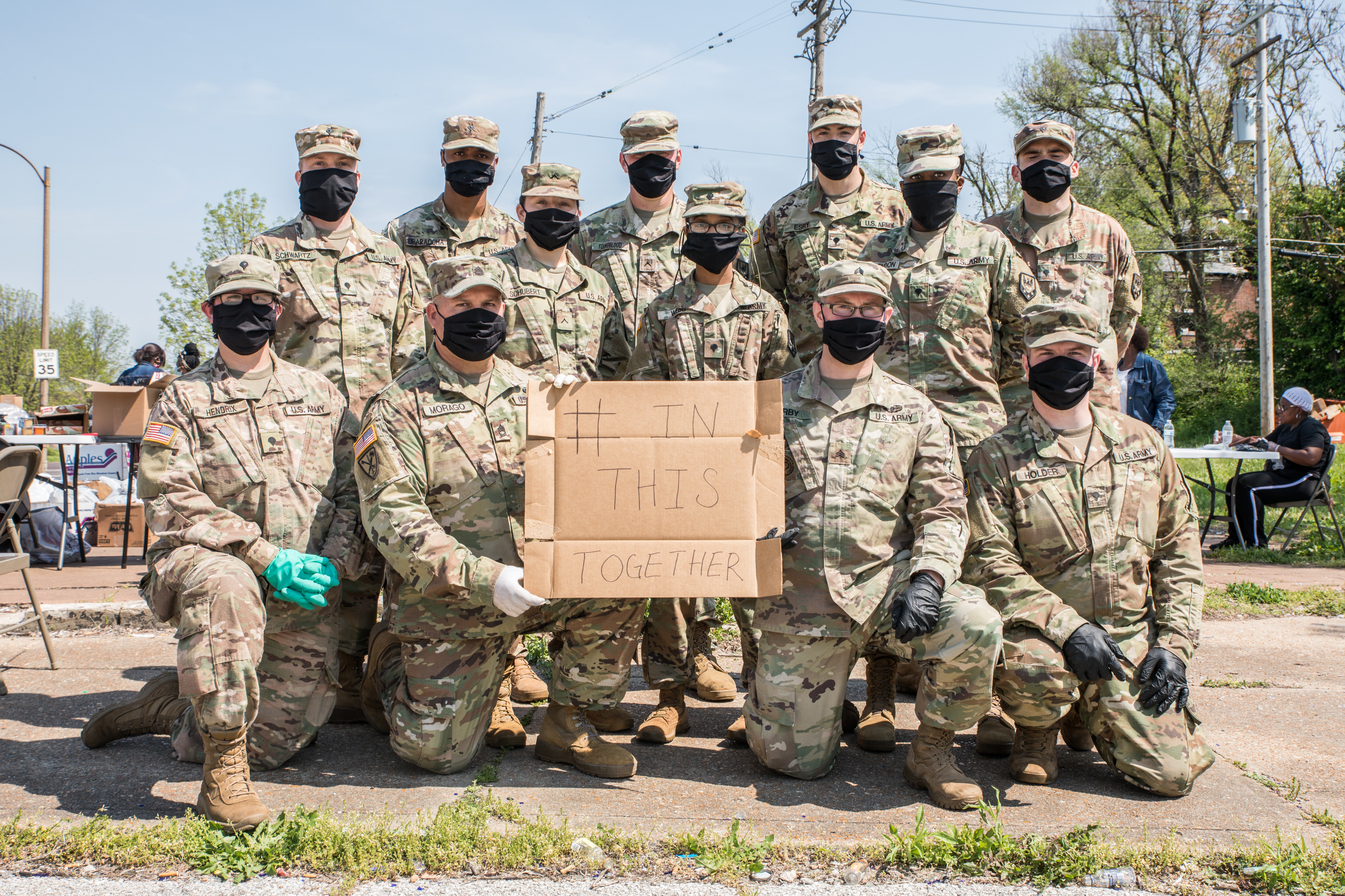 U.S. National Guardsmen from the 1231st Transportation Company pose for a photo in Saint Louis, Mo. April, 28, 2020. Over 200 Missouri National Guardsmen are boosting food bank. support across the state as part of the Guard’s response to the COVID-19 pandemic. (U.S. Air National Guard photo by Tech. Sgt. Colton Elliott)